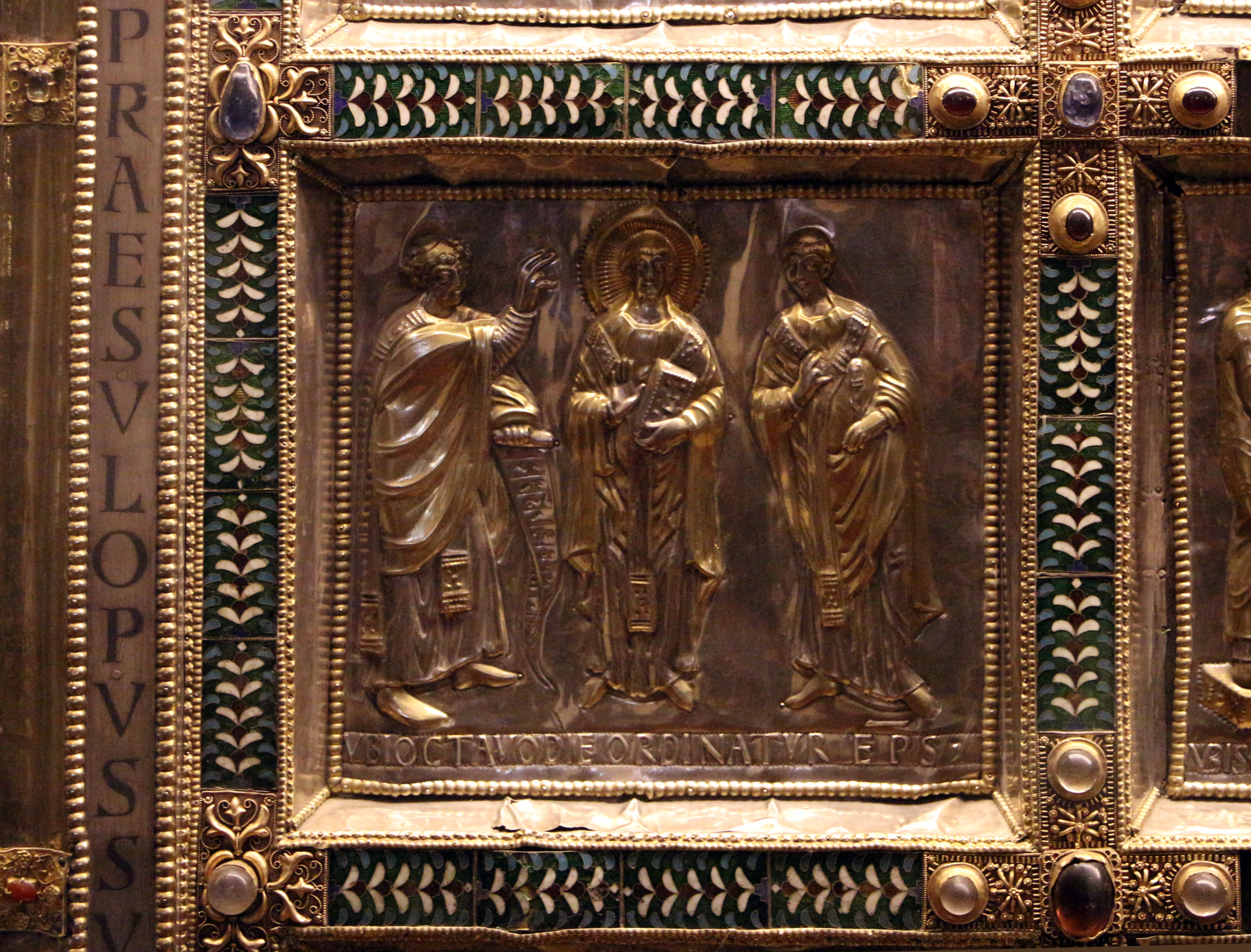 Sant'Ambrogio Altar